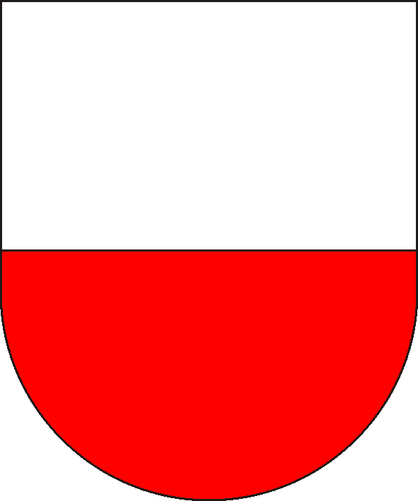 coats of arms of the county of Hohenberg